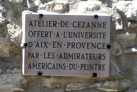 Cézanne's studio, 9 avenue Paul Cézanne, Aix-en-Provence (France). « Cézanne's studio offered to Aix-en-Provence university by painter's american admirers »